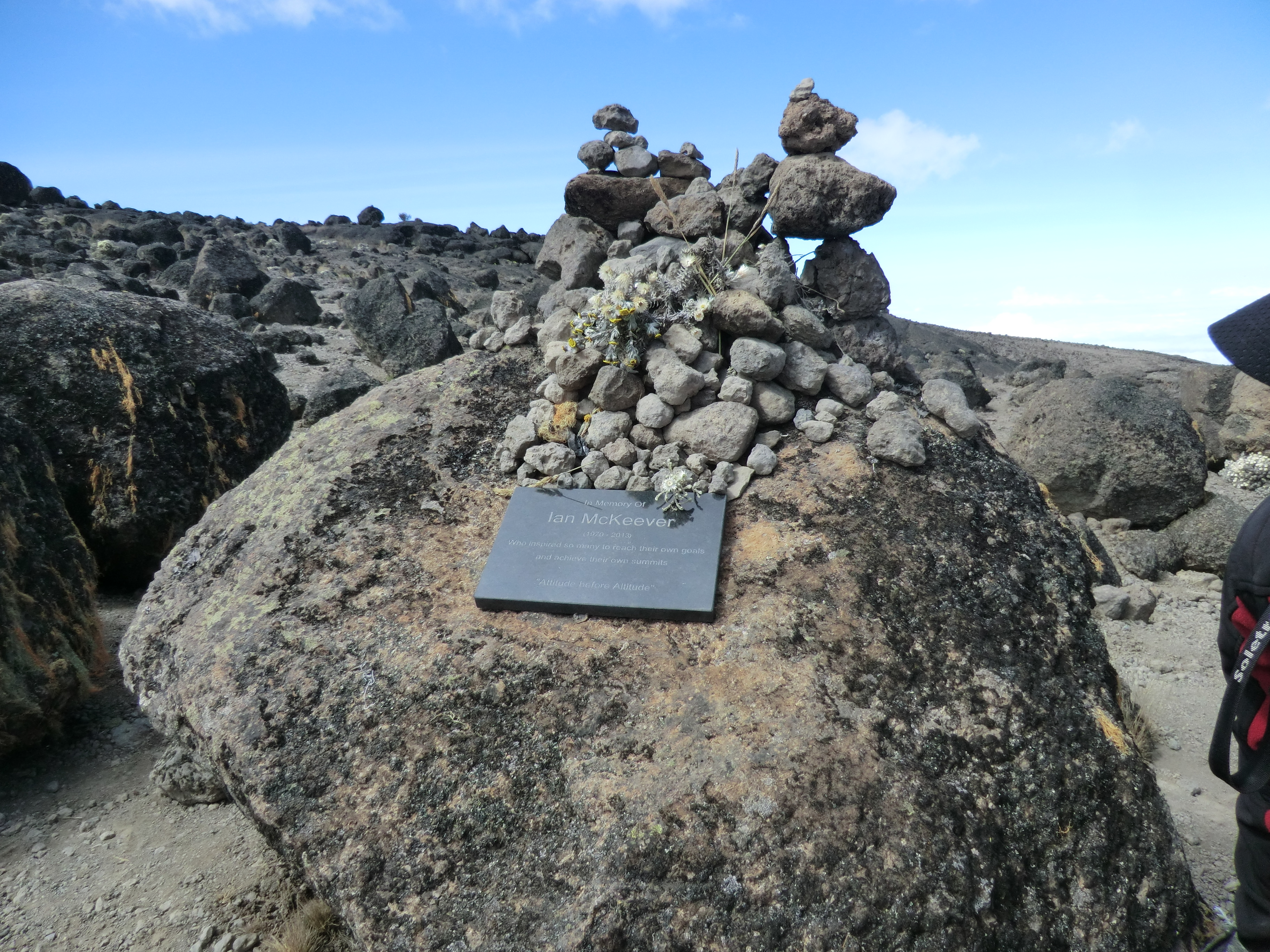 Commemorating plaque for Ian McKeever (1970-2013) on Mount Kilimanjaro near the location where he died from a lightening strike. Full text on plaque: In Memory Of Ian McKeever (1970-2013) Who inspired so many to reach their own goals and achieve their own summits "Attitude before Altitude"